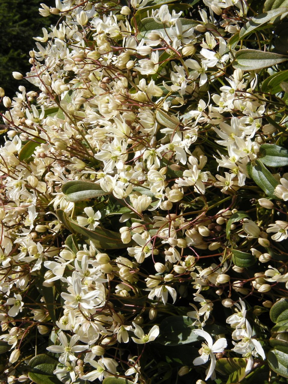 Above patio. Larger image